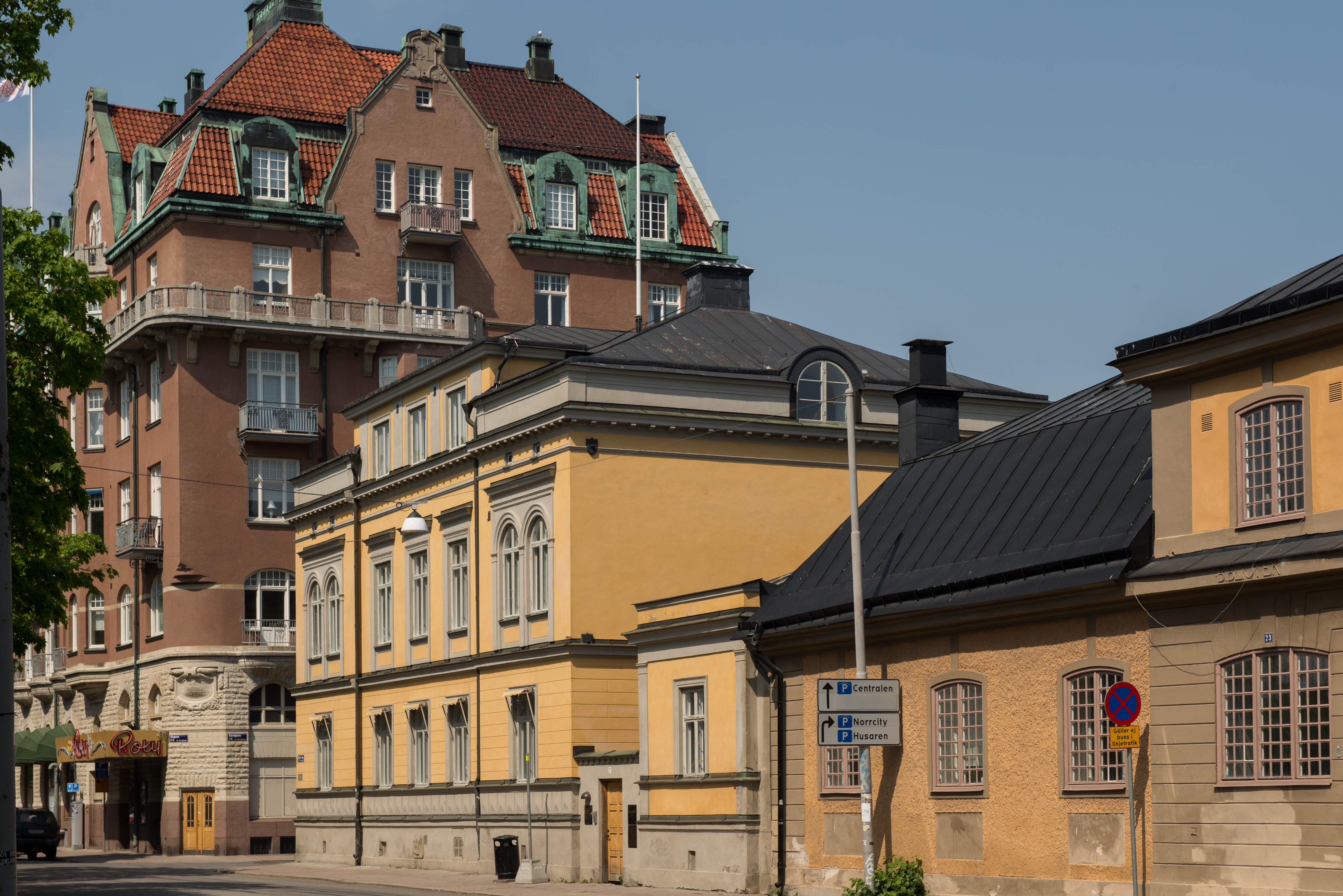 Olaigatan, Örebro.